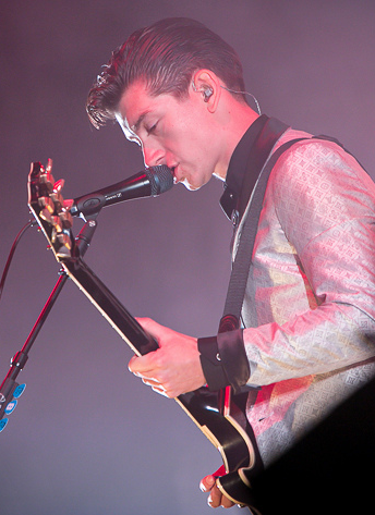 arctic monkeys at zürich open air 2013